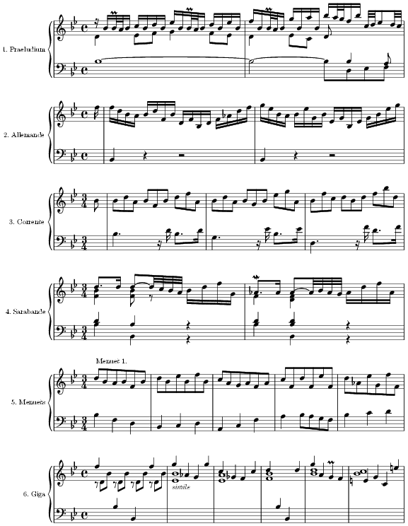 First bars of all parts of 1. partita in Clavier-Übung I (BWV 825)